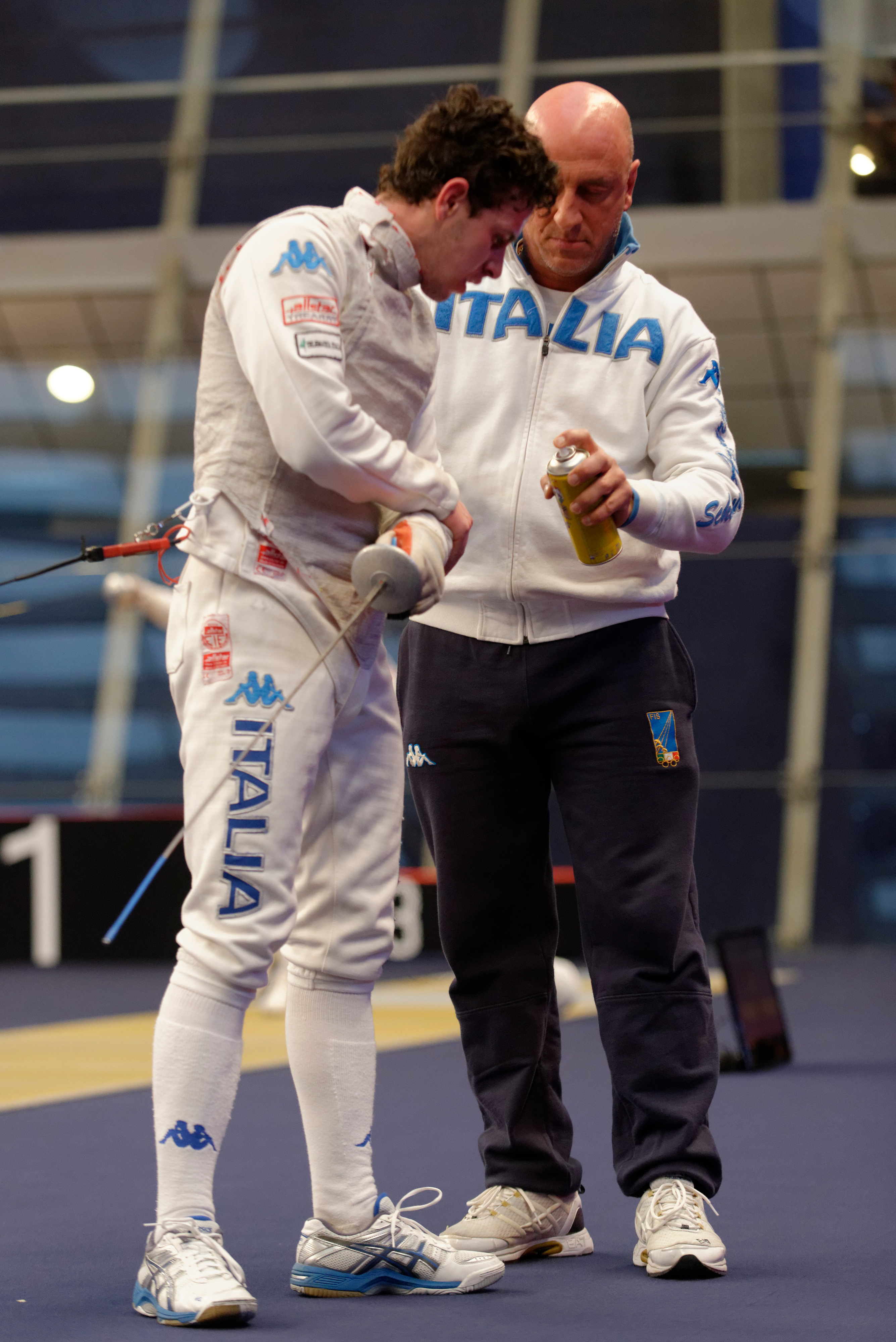 Edoardo Luperi of Italy receives ice spray from national foil coach Andrea Cipressa during his T64 bout against France's Julien Mertine at the Challenge International de Paris (men's foil World Cup).